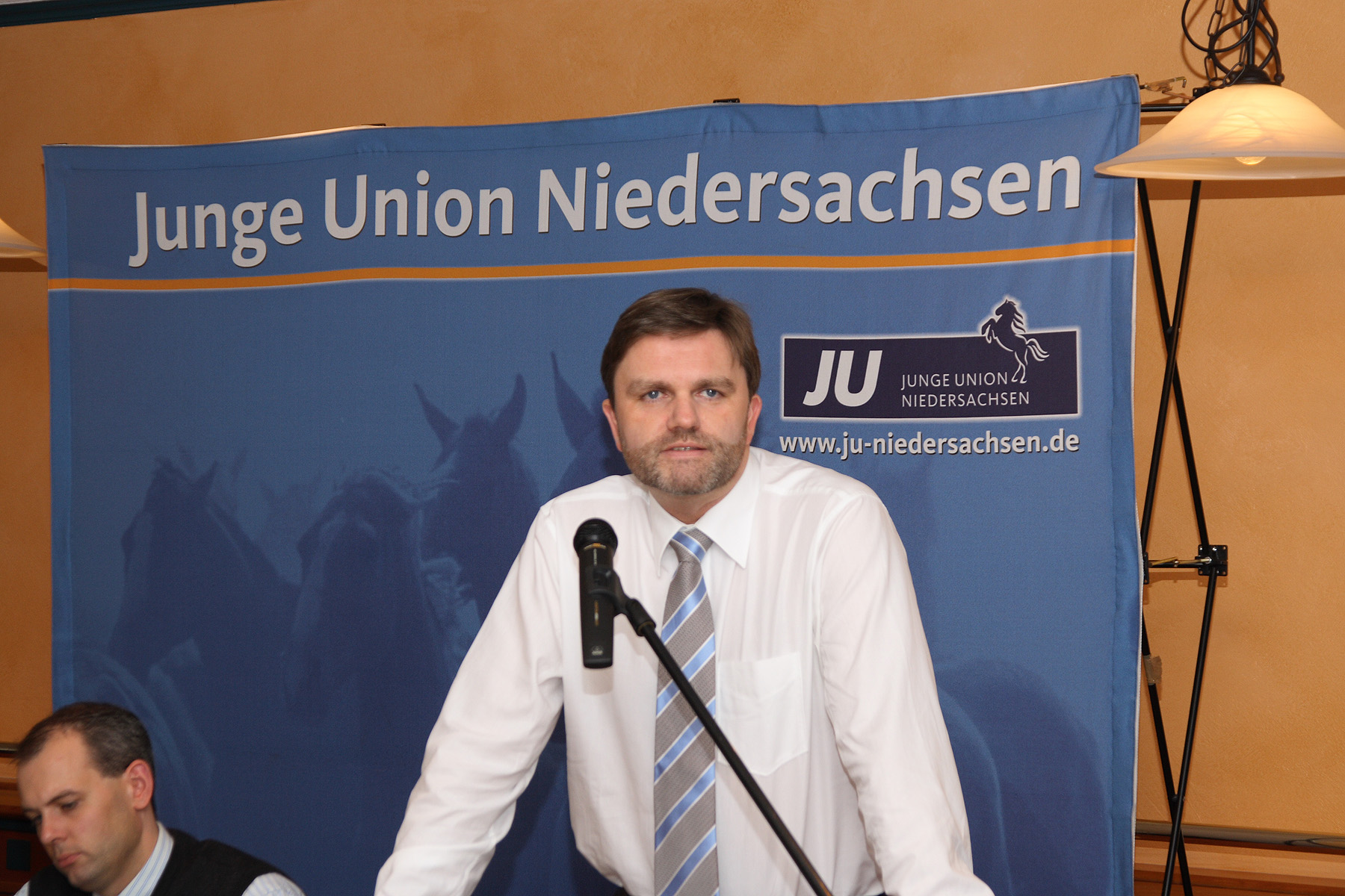 Uwe Schuenemann, German politician (Christian Democratic Union of Germany) and interior minister of the German state of the federation Lower Saxony.